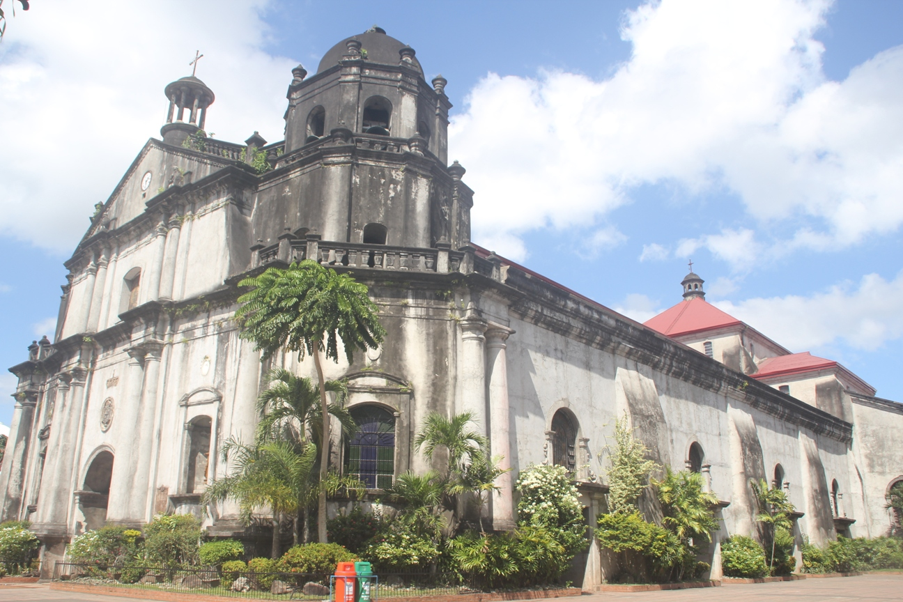 Naga Metropolitan Cathedral